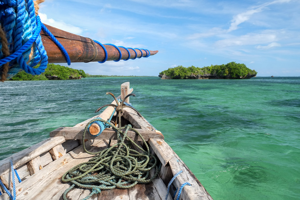 Mafia,Tanzania